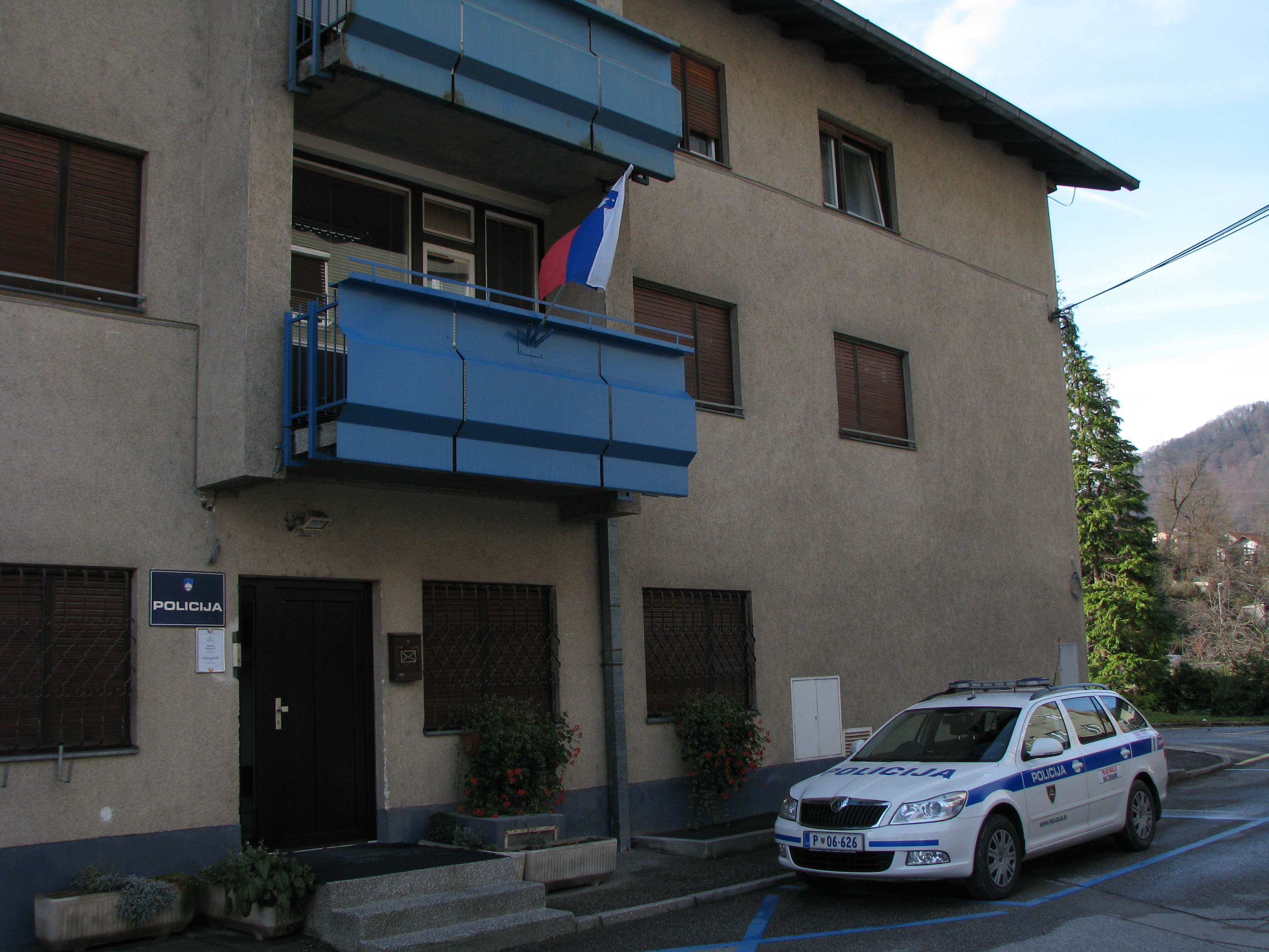 Police station of Zagorje ob Savi